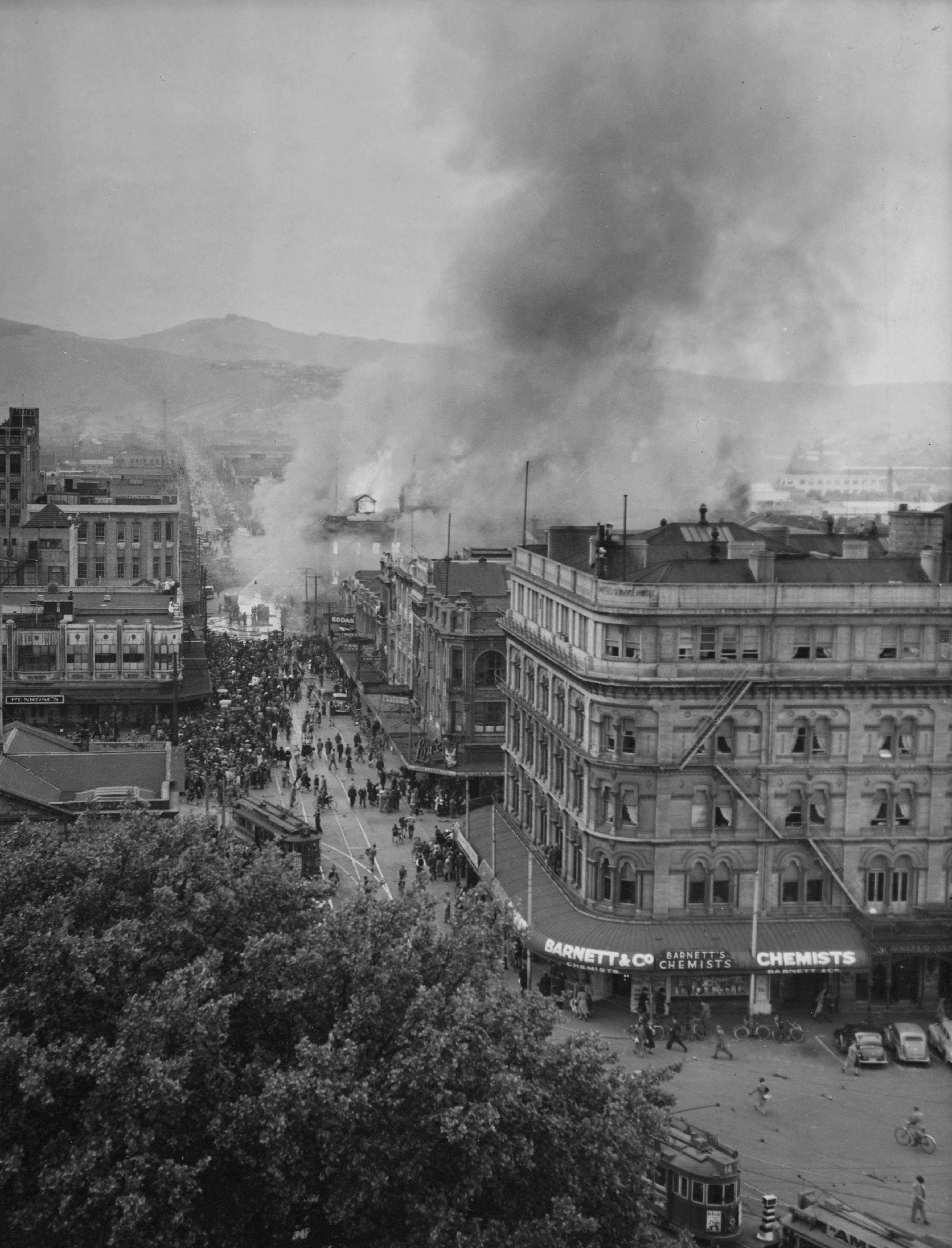 View, from a distance, of the Ballantyne's department store fire, Christchurch. Photograph taken at 4pm from the Cathedral tower. Photographer unidentified.